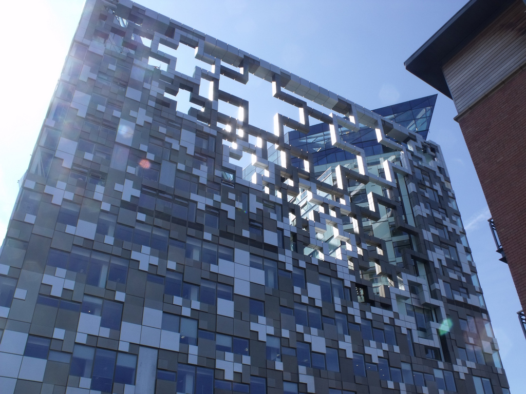 The Cube, Birmingham